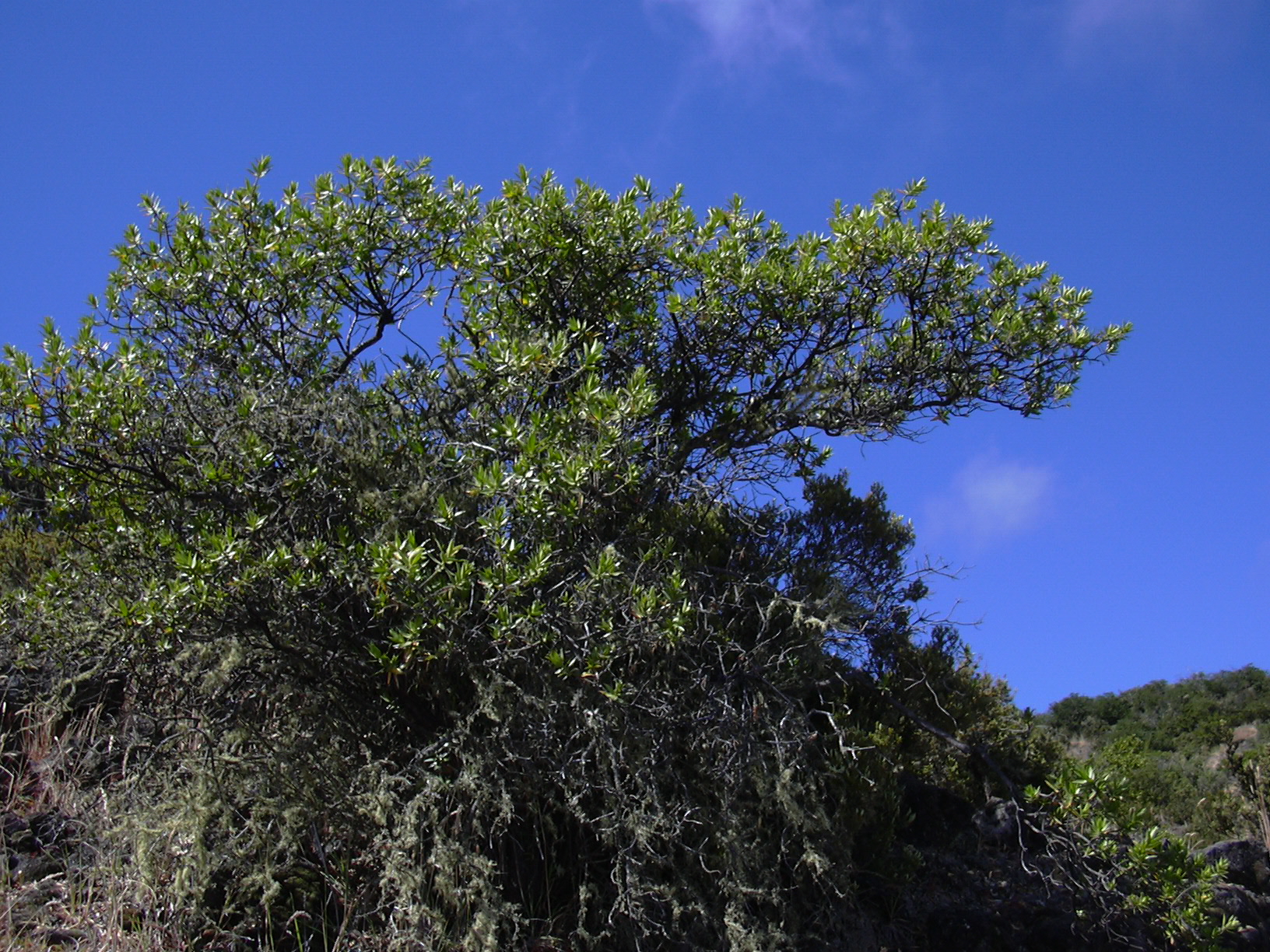 Dubautia arborea (habit). Location: Hawaii, Puu Kole